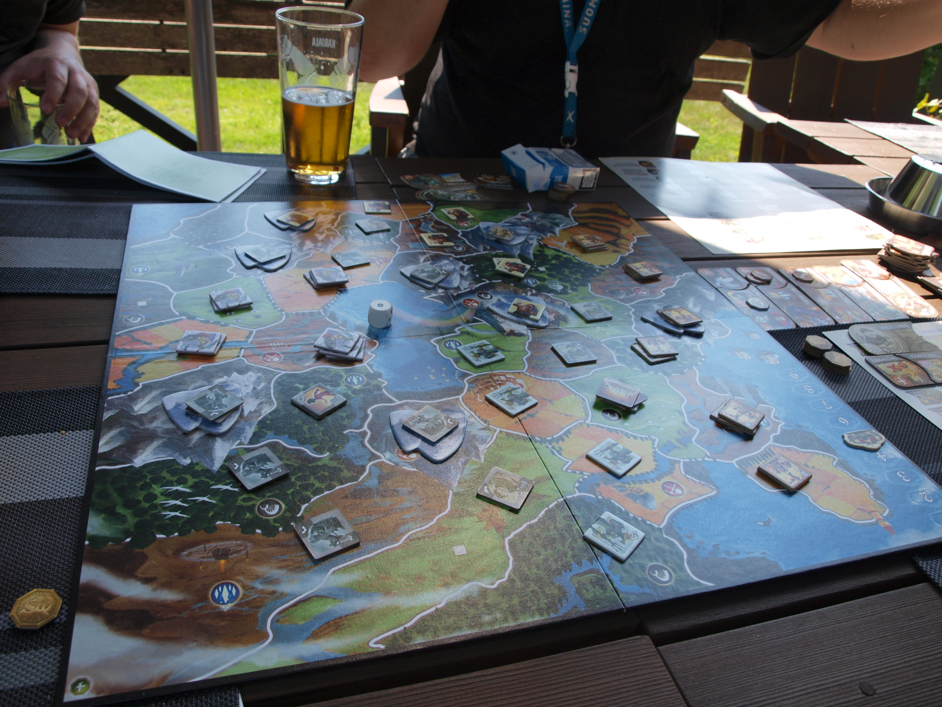 A game of Small World being played in Fiskars, Finland, in the middle of June.